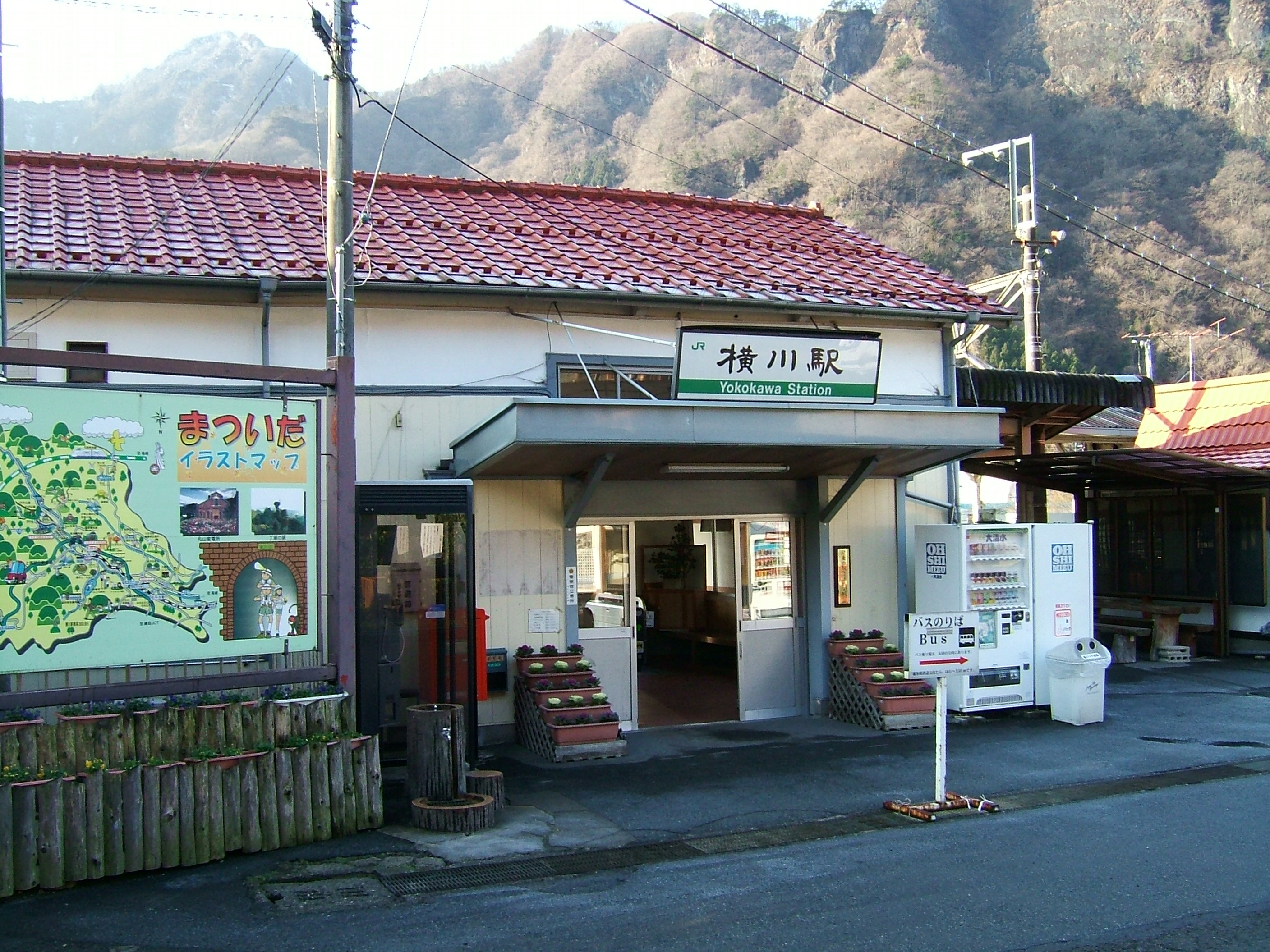 Yokokawa Station